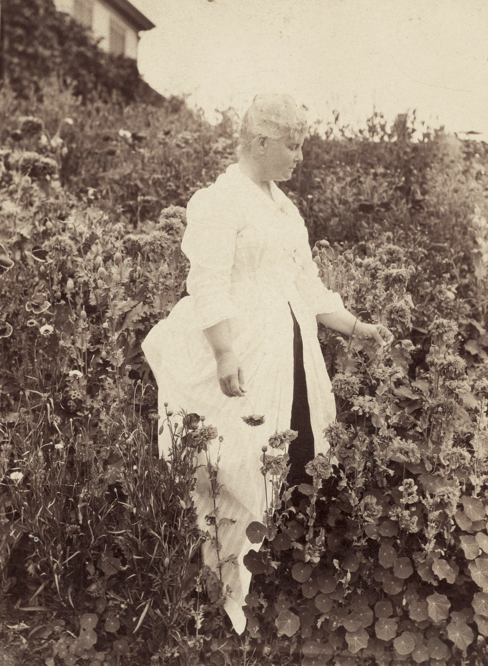 Photograph of American writer Celia Thaxter in her garden, dated 1889. Inscribed on verso: "John Brown & Agnes his wife, from Celia Thaxter, Shoals garden Aug. 1889. With love." Edited version: cropped, adjusted for brightness/contrast, lessened color saturation to remove yellowing. MS Am 1272.2, Miscellaneous photographs of Celia Thaxter and Appledore Island (Me.), Houghton Library, Harvard University